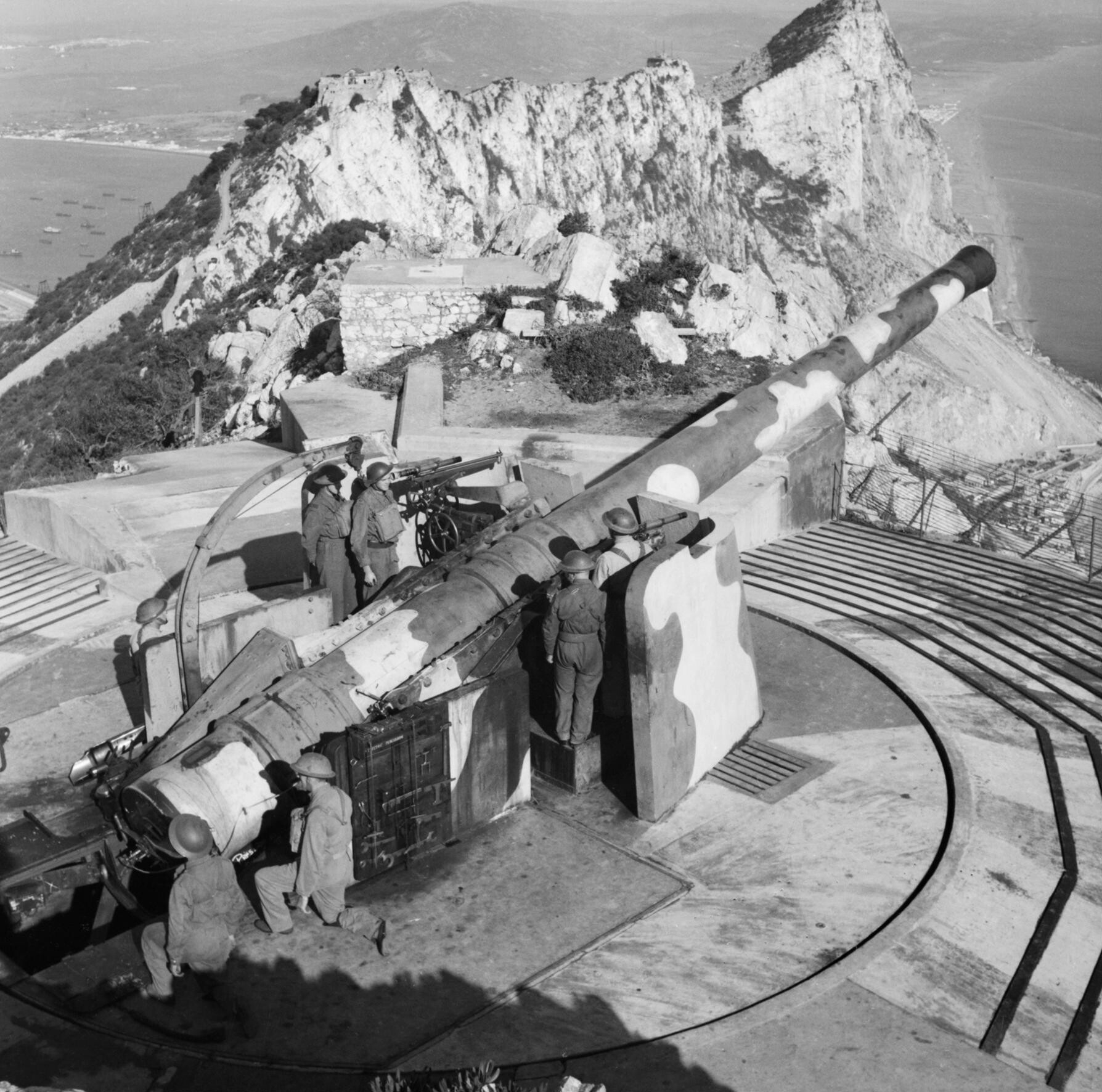 The British Army on Gibraltar 1942 A 9.2-inch coastal gun on the Rock of Gibraltar, 4 January 1942.